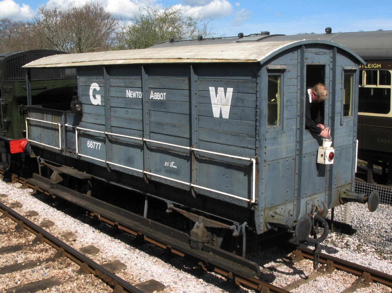 A former Great Western Railway "Toad" brake van. Diagram AA20, wagon number 68777. Photographed at Totnes on the South Devon Railway, England.